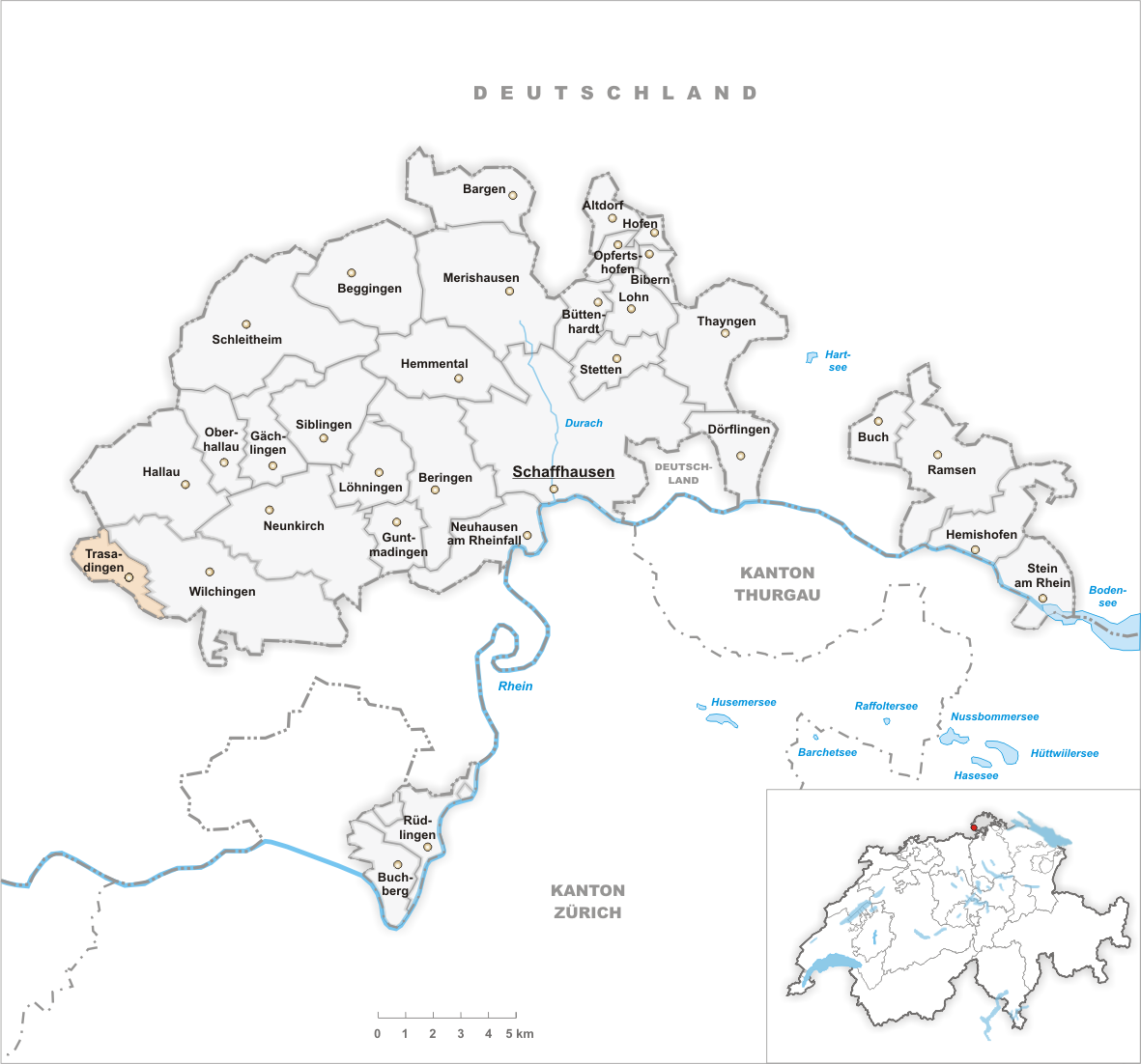 Municipality Trasadingen